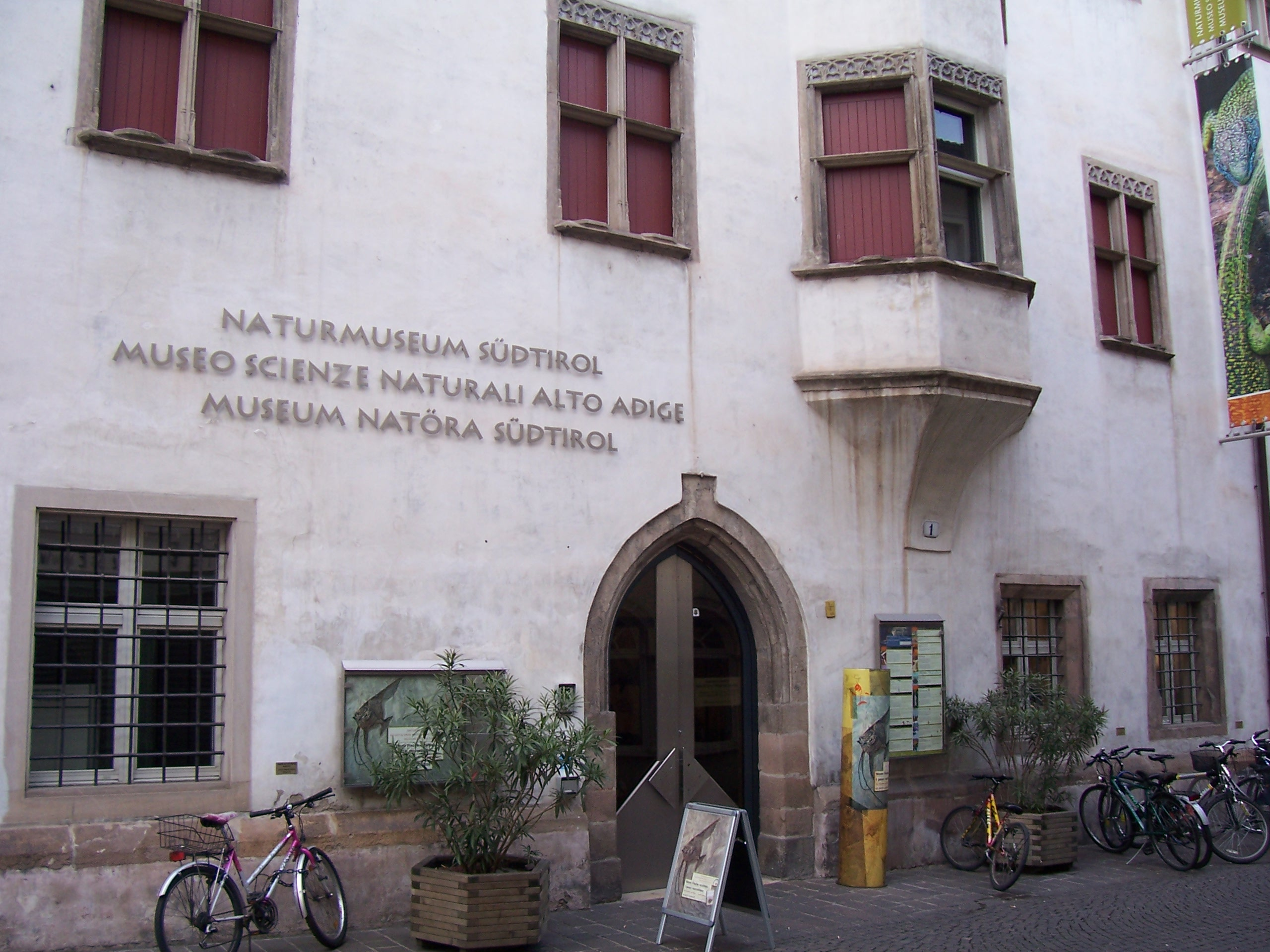 Entry of the natural science museum, Bolzano, Italy